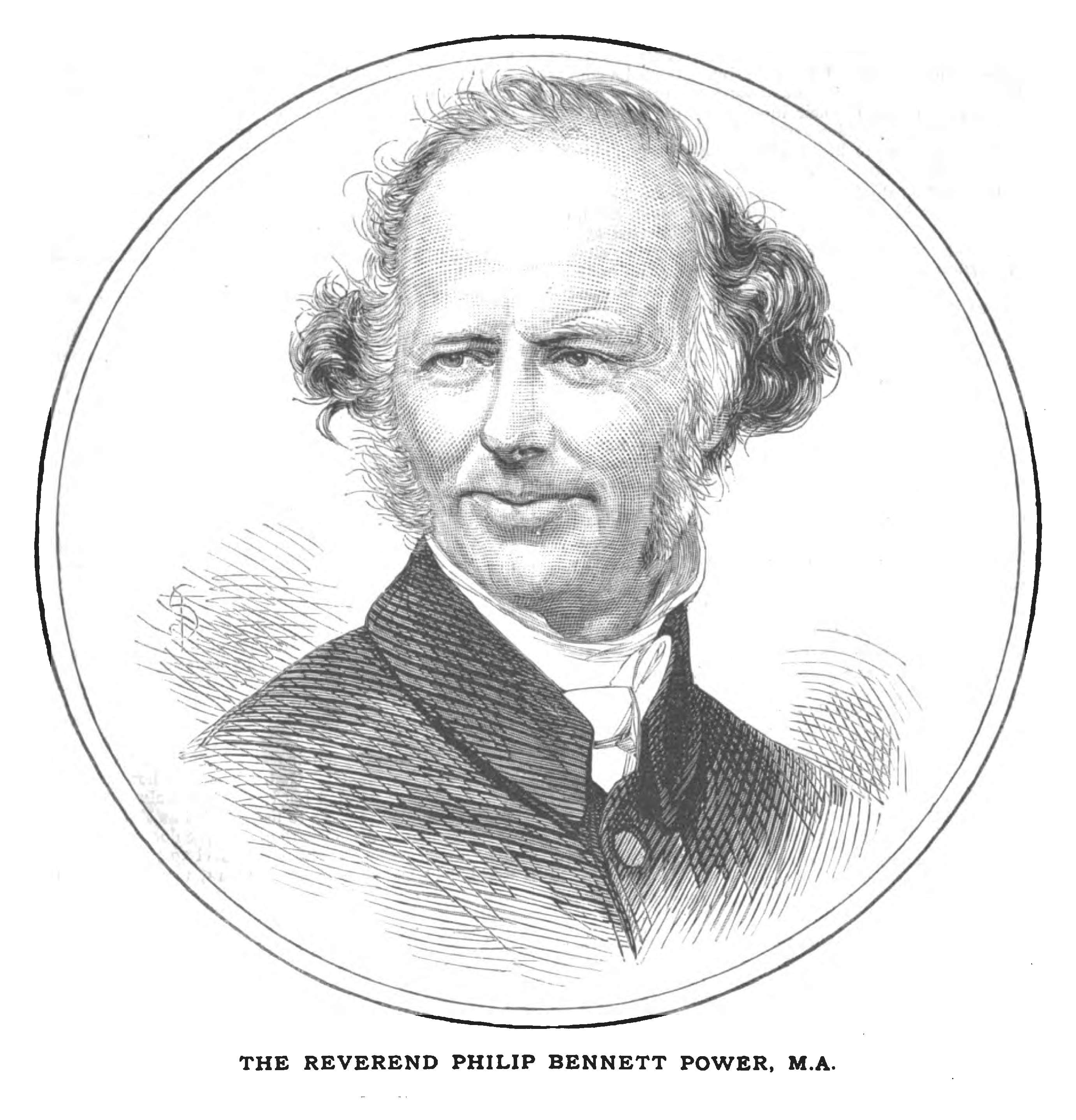 Philip Bennett Power was an Anglican priest, Incumbent of Christ Church, Worthing from 1855–1865